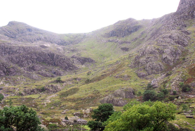 Cwm Glas Bach The cottage at the bottom of the photograph has the same name as the valley. Cwm Glas Bach means "little green valley".